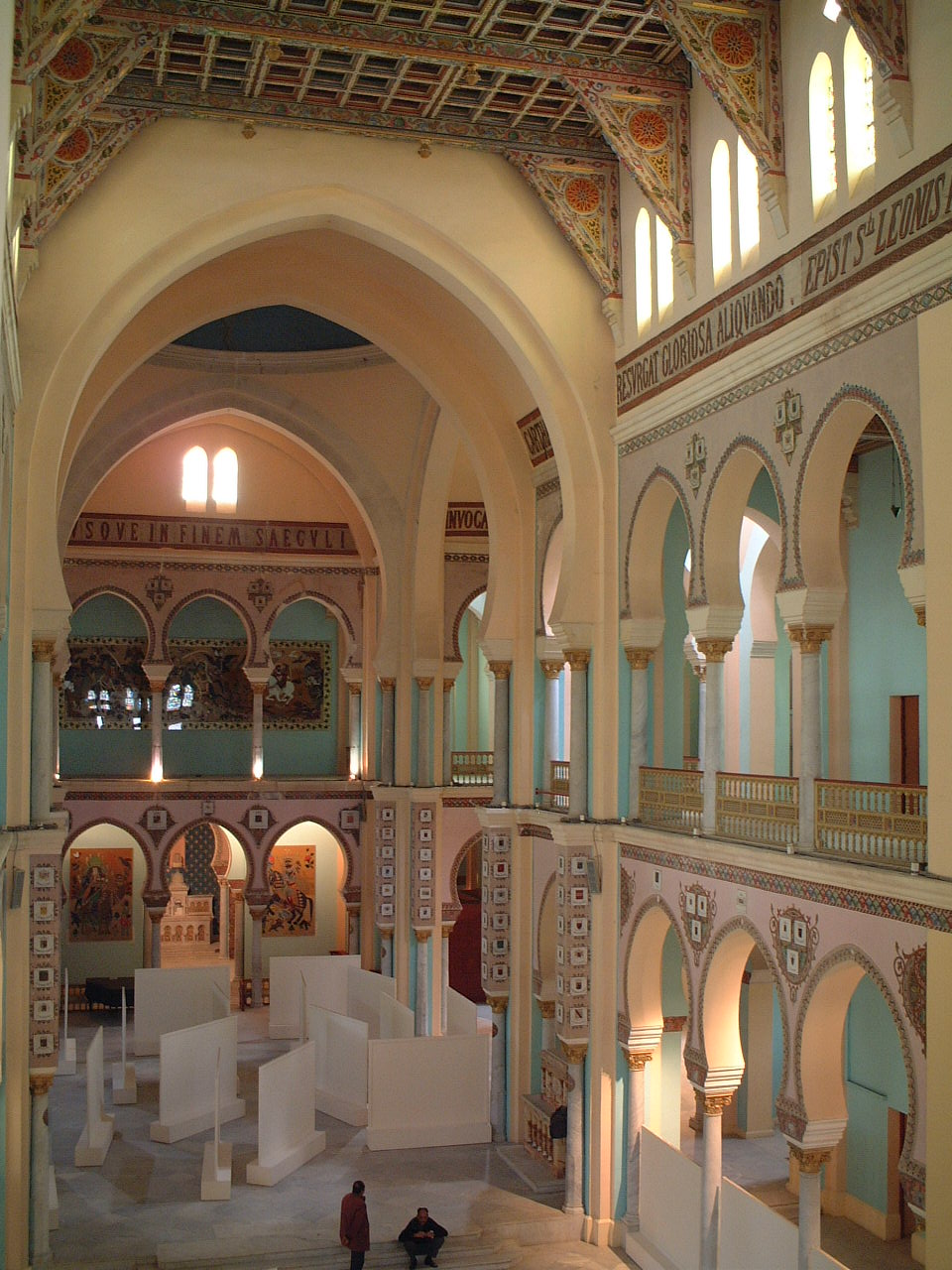 Inside the former Cathedral Saint-Louis of Carthage, Carthage, Tunisia.